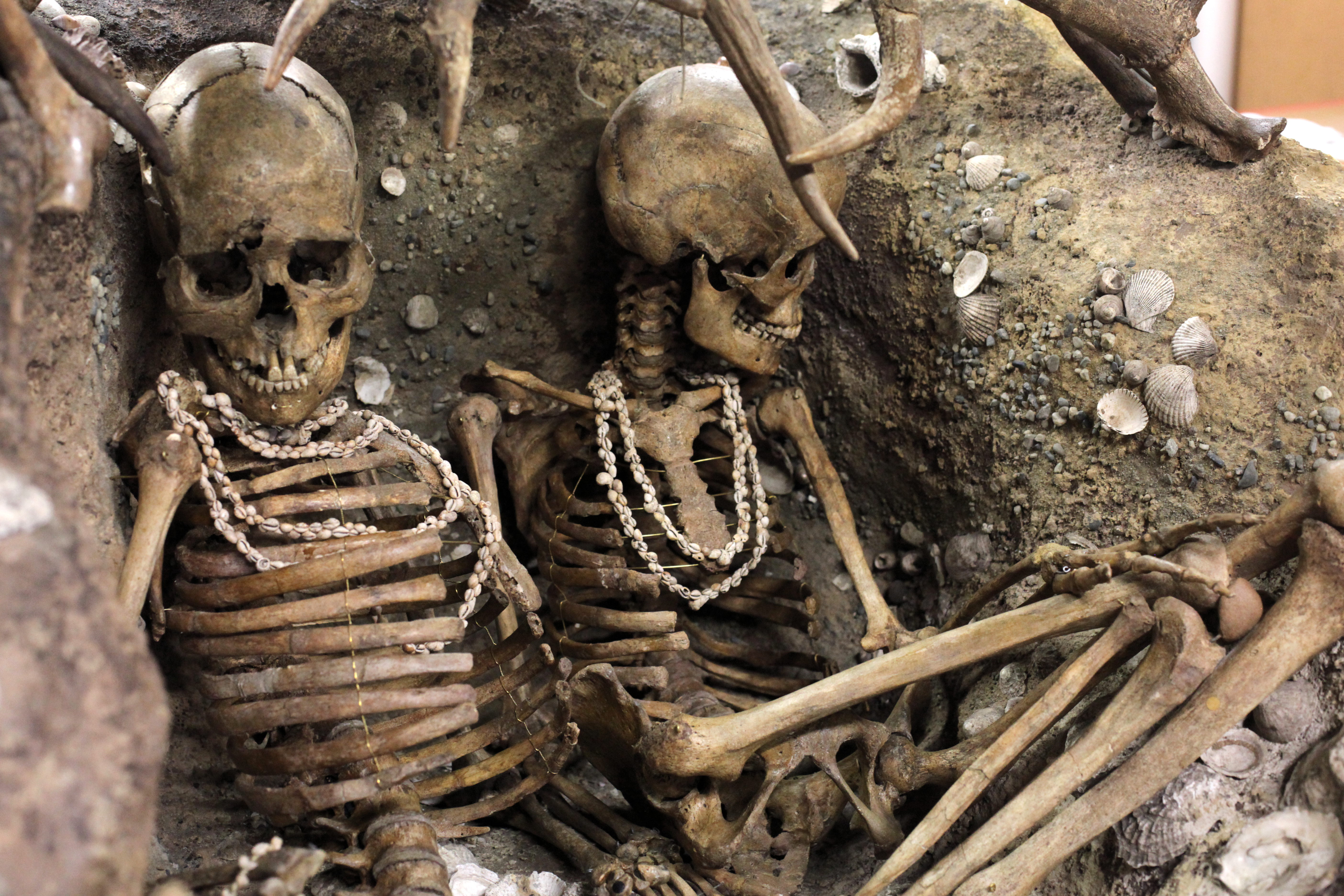 Reconstitution of a prehistoric tumb. Two women in the twenties or early thirties, both featuring traumatic injuries to the skull. One believed to have been buried while still alive. Characteristic floor covered with shellfishes and antler roof.